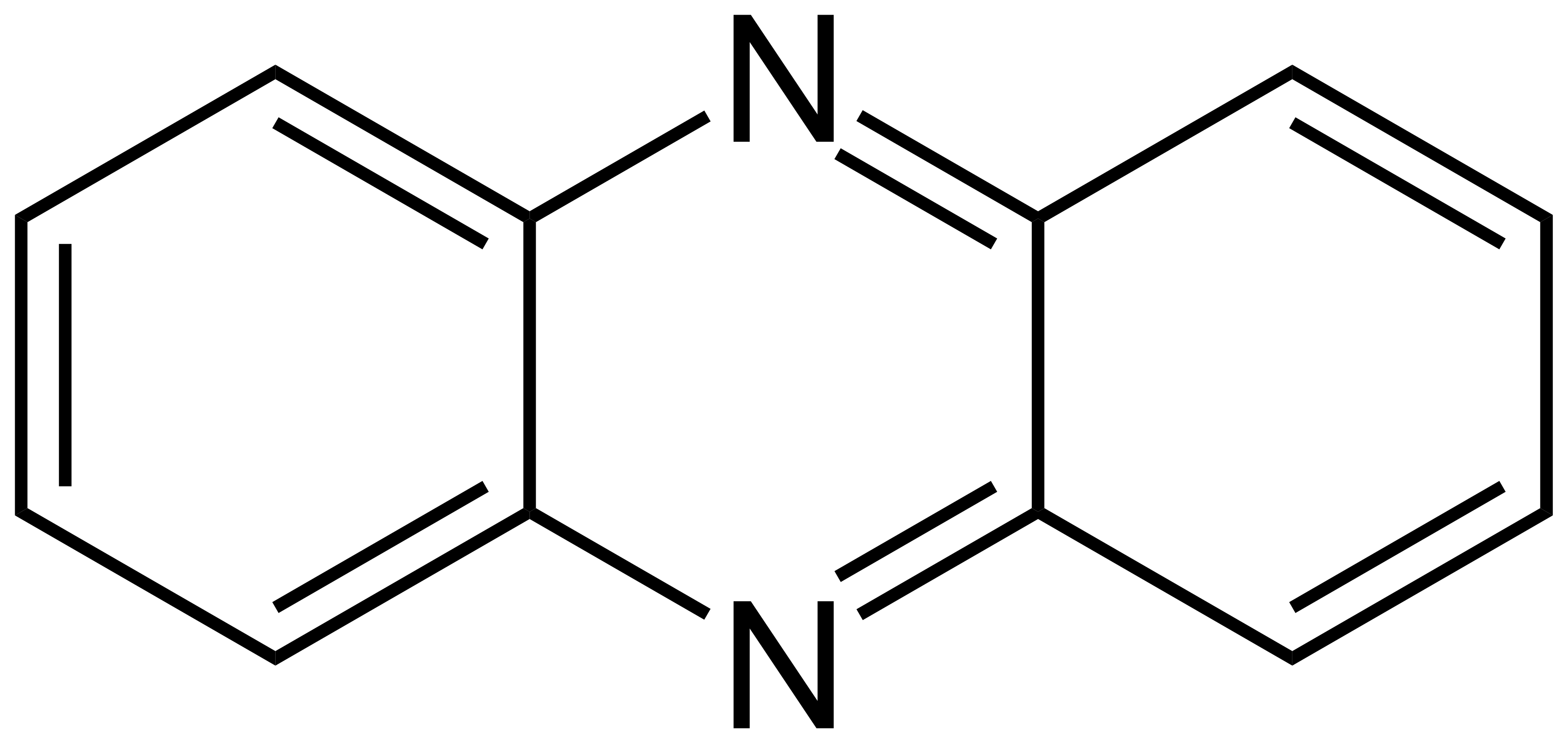 Chemical structure of phenazine